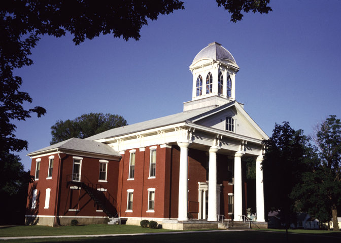 The Mitchell County Courthouse, located at 500 State St. in Osage, Mitchell County, Iowa, United States. Built in 1858, it was added to the National Register of Historic Places on 29 August 1977.